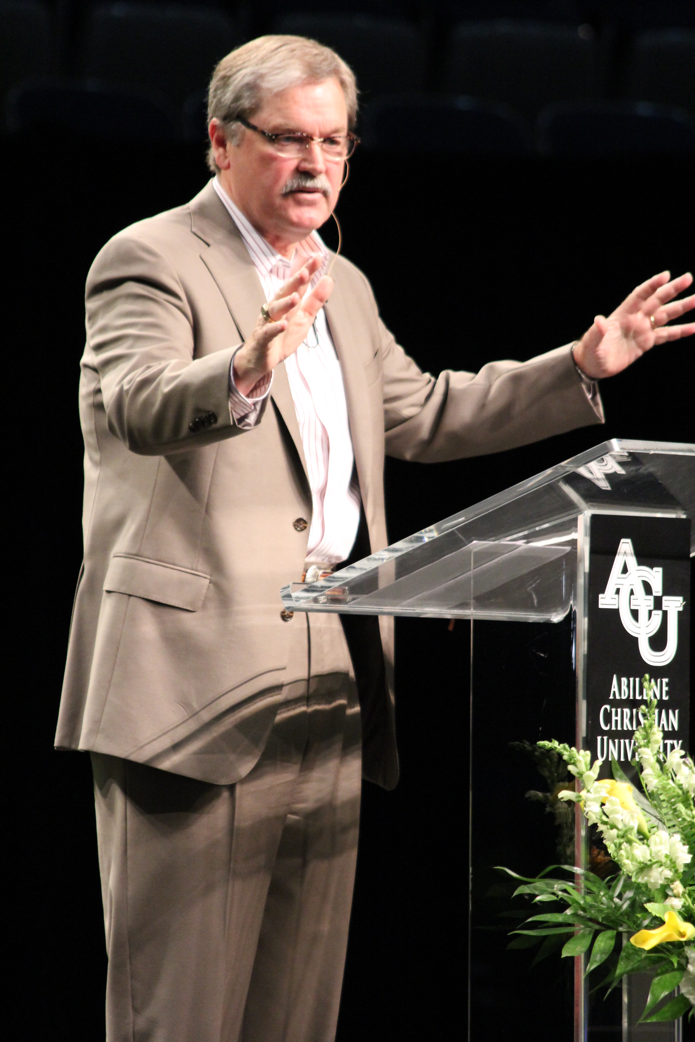 Larry James teaching at ACU Summit in September of 2013 as a keynote.